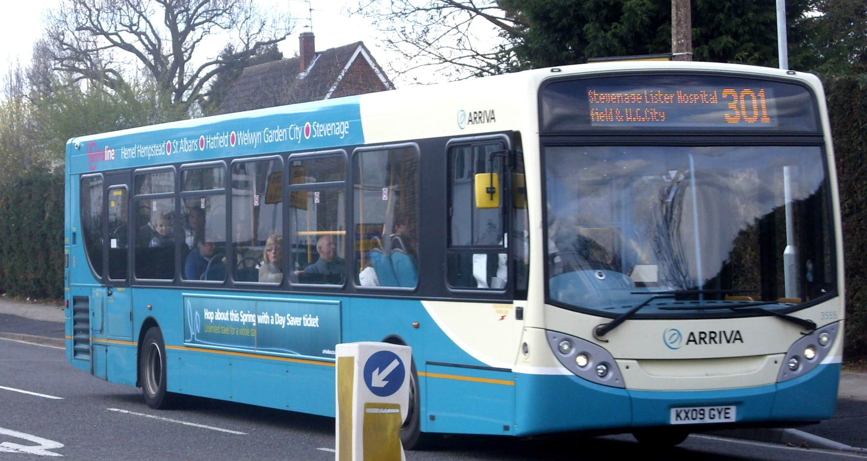 An Arriva the Shires bus on route 301 approaching Hatfield railway station, Hertfordshire. The bus is an Alexander Dennis Enviro300, registration mark KX09 GYE, fleet number 3555.